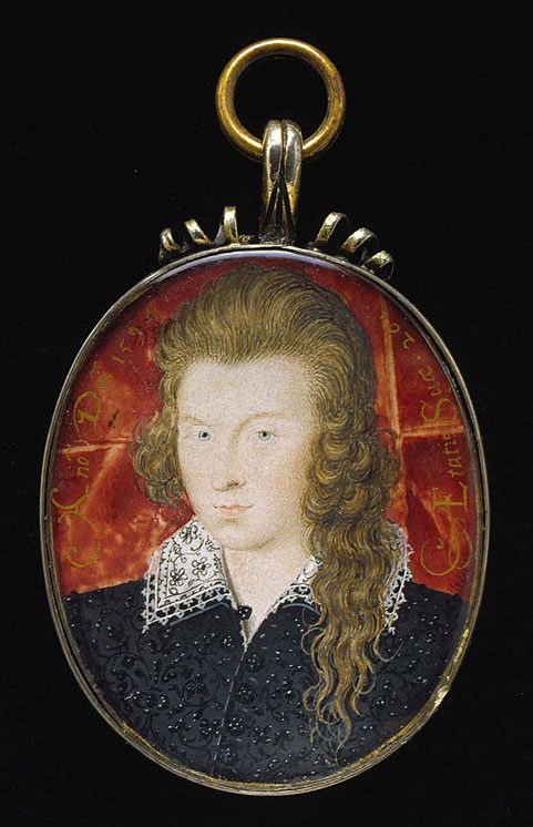 Portrait of Henry Wriothesley, 3rd Earl of Southampton (1573-1624) Miniature painting, sometimes thought to have been the dedicatee of Shakespeare's sonnets (1573-1624).